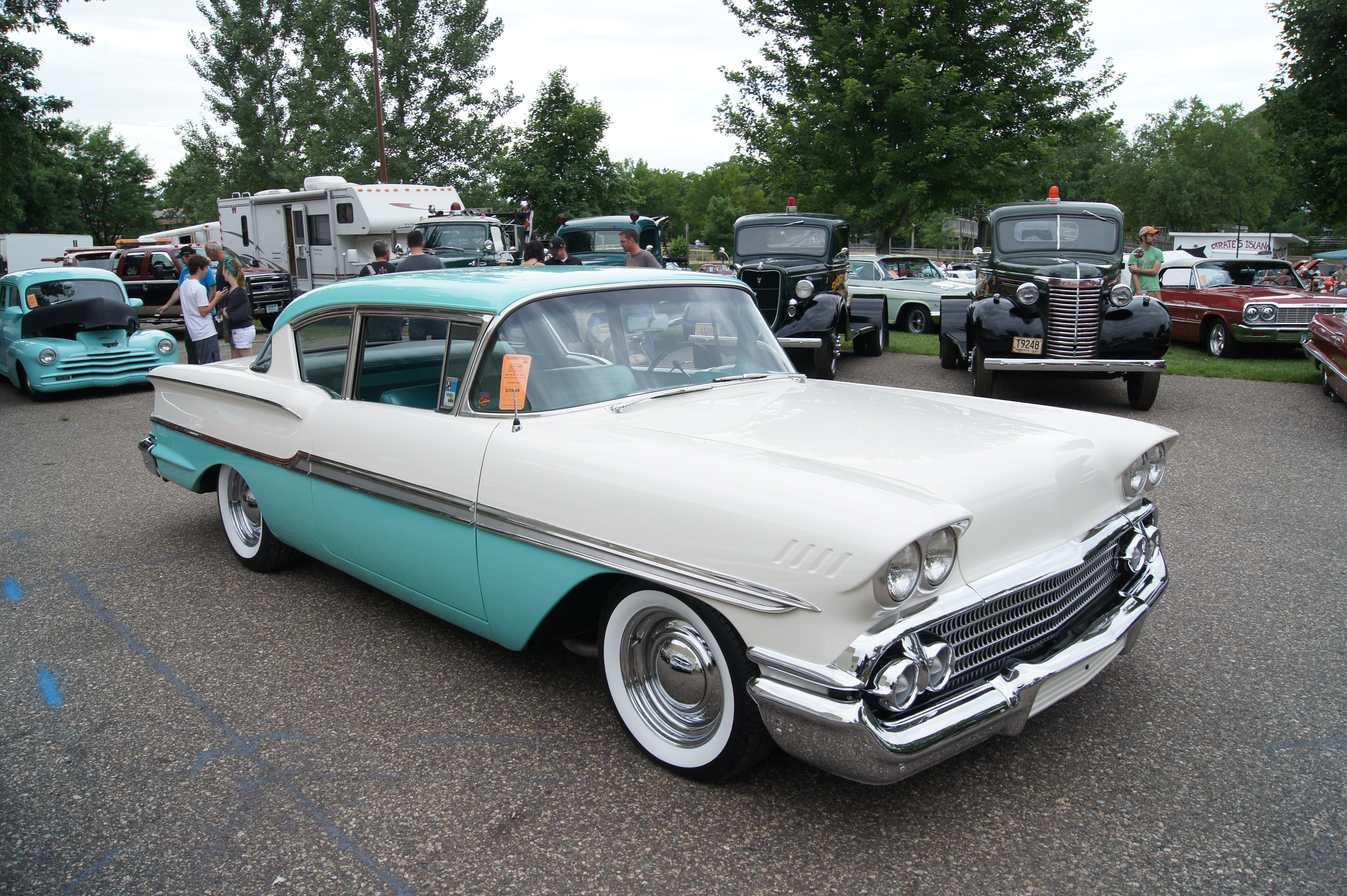 Minnesota Street Rod Association 39th Annual "Back to the Fifties" June 2012 Minnesota State Fairgrounds St. Paul MN